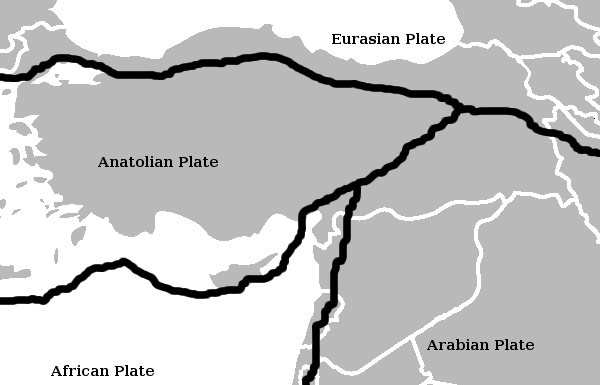 Geologic faults and tectonic plates in Turkey, with plate labels. The positions of the faults is based on the BBC map used in this article